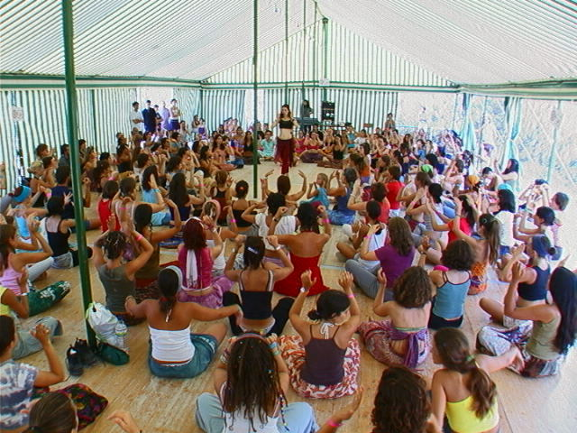 Oriental dance Workshop, Andancas, Portugal